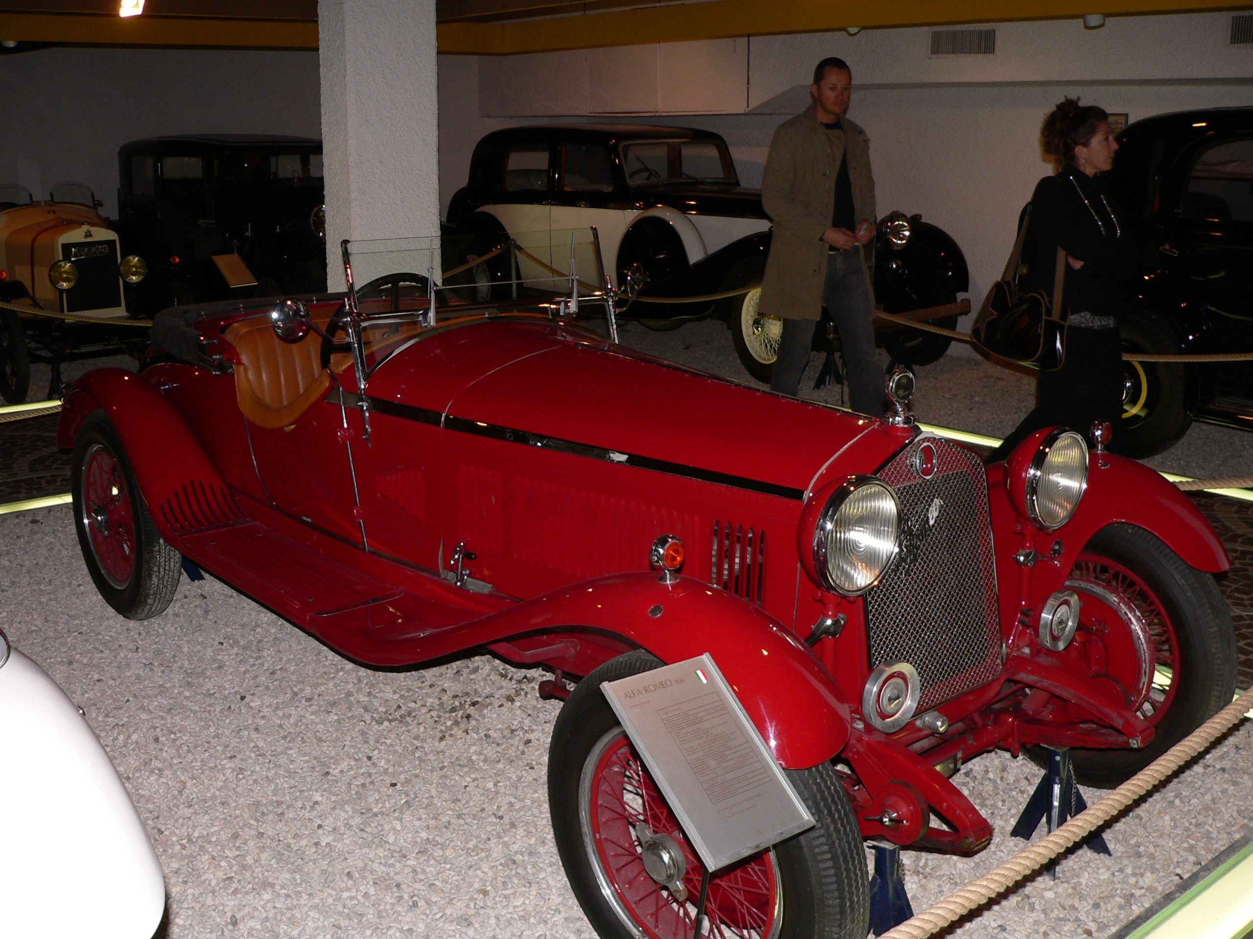 Alfa Romeo 6 C 1750 1930